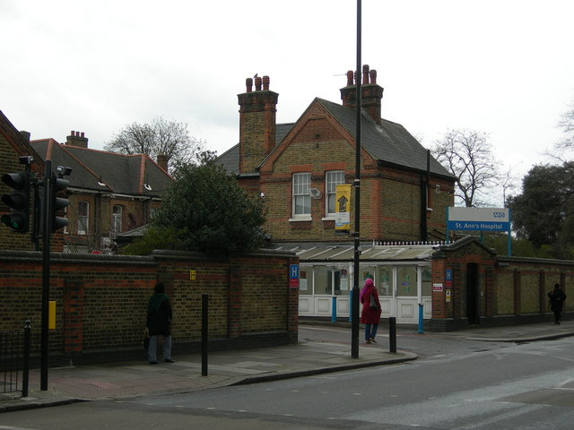 Entrance to St Ann's Hospital